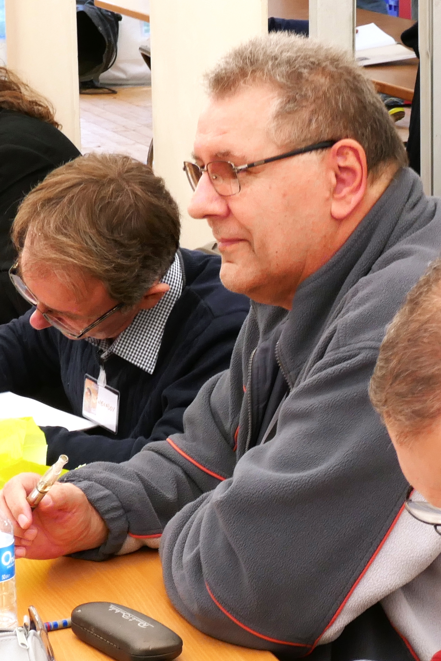 Branislav Kerac at Festival de la BD de Buc 2016